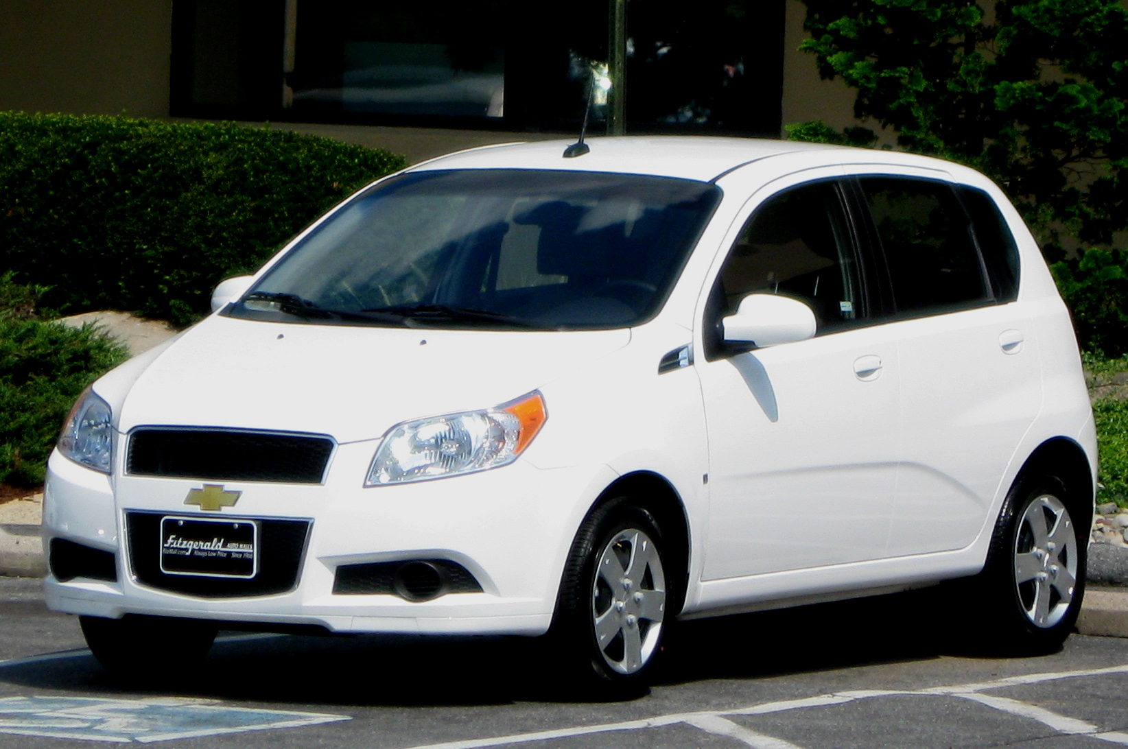 2009 Chevrolet Aveo5 photographed in Frederick, Maryland, USA.